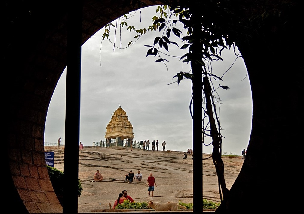 Kempegowda tower in Lal Bagh botanical garden (Bangalore, India)